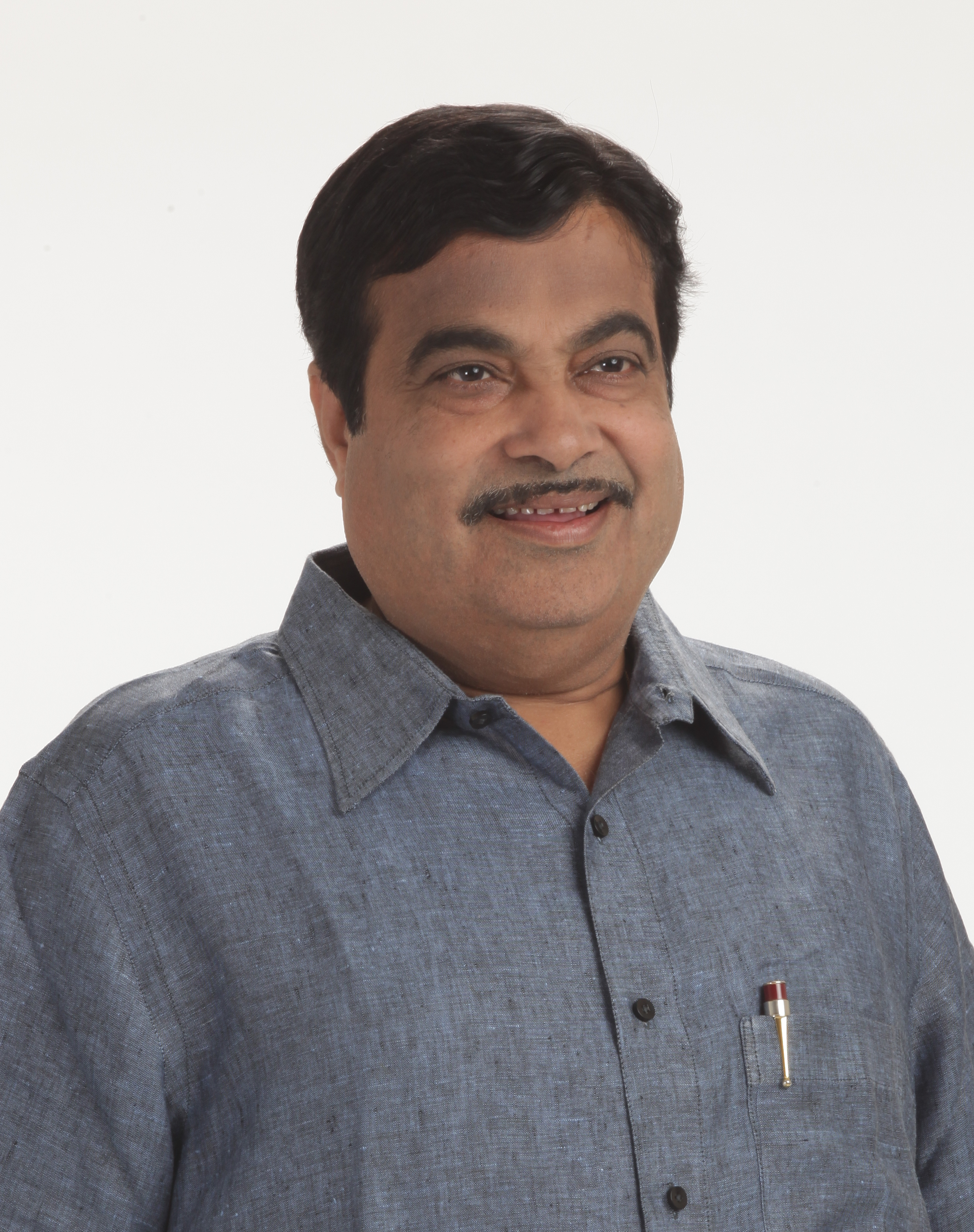 Nitin Gadkari, a politician from Nagpur, Maharashtra India.